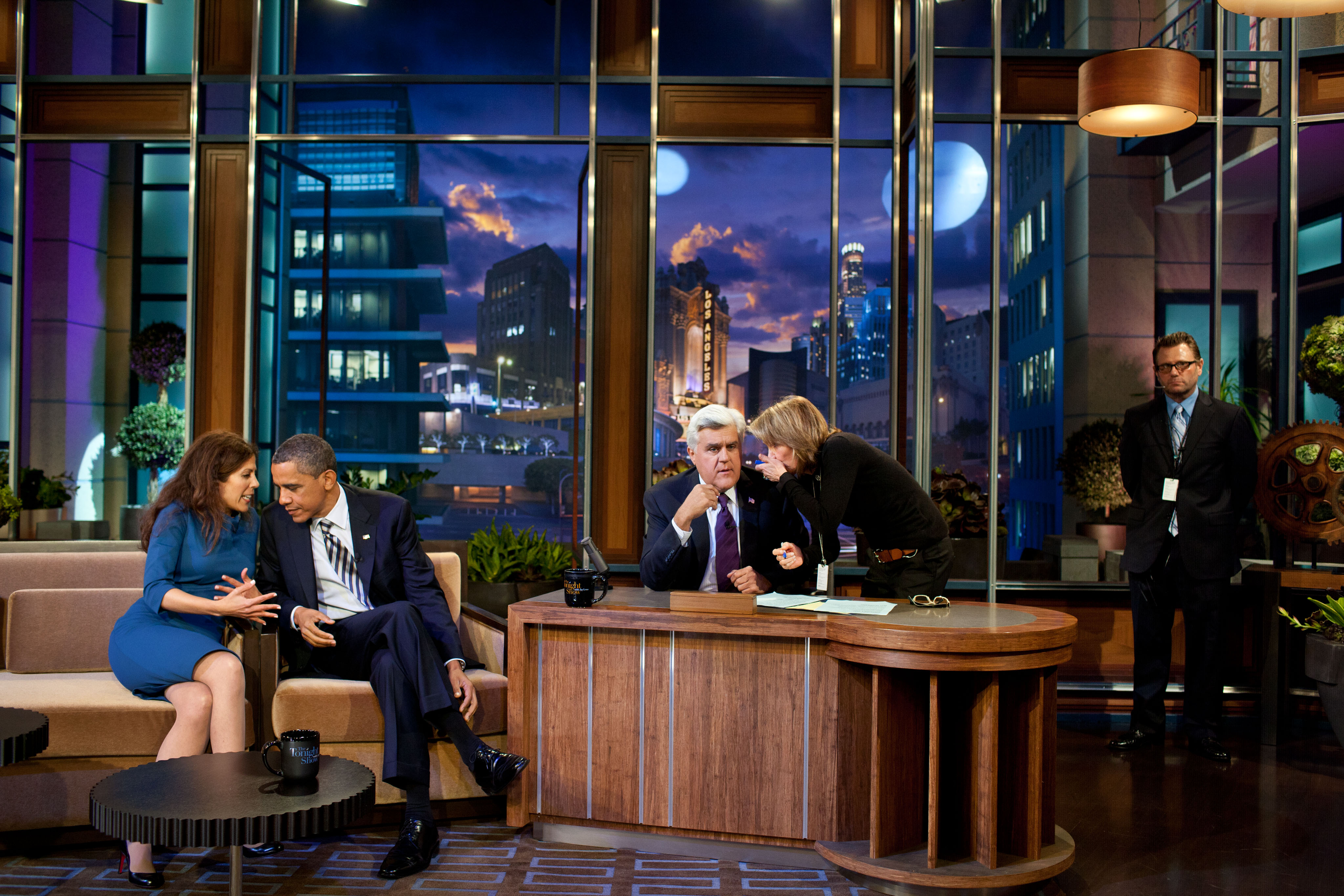 President Barack Obama talks with co-producer Michele Tasoff during a break in taping “The Tonight Show with Jay Leno” at NBC Studios in Burbank, Calif., Oct. 25, 2011.